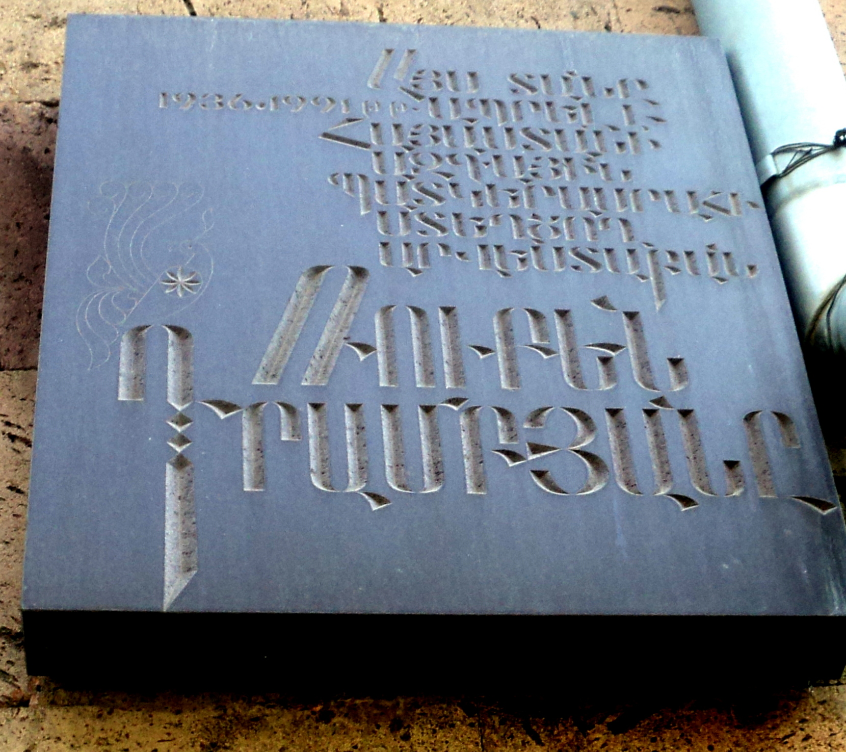 Ռուբեն Դրամբյանին նվիրված հուշատախտակ Երևանում